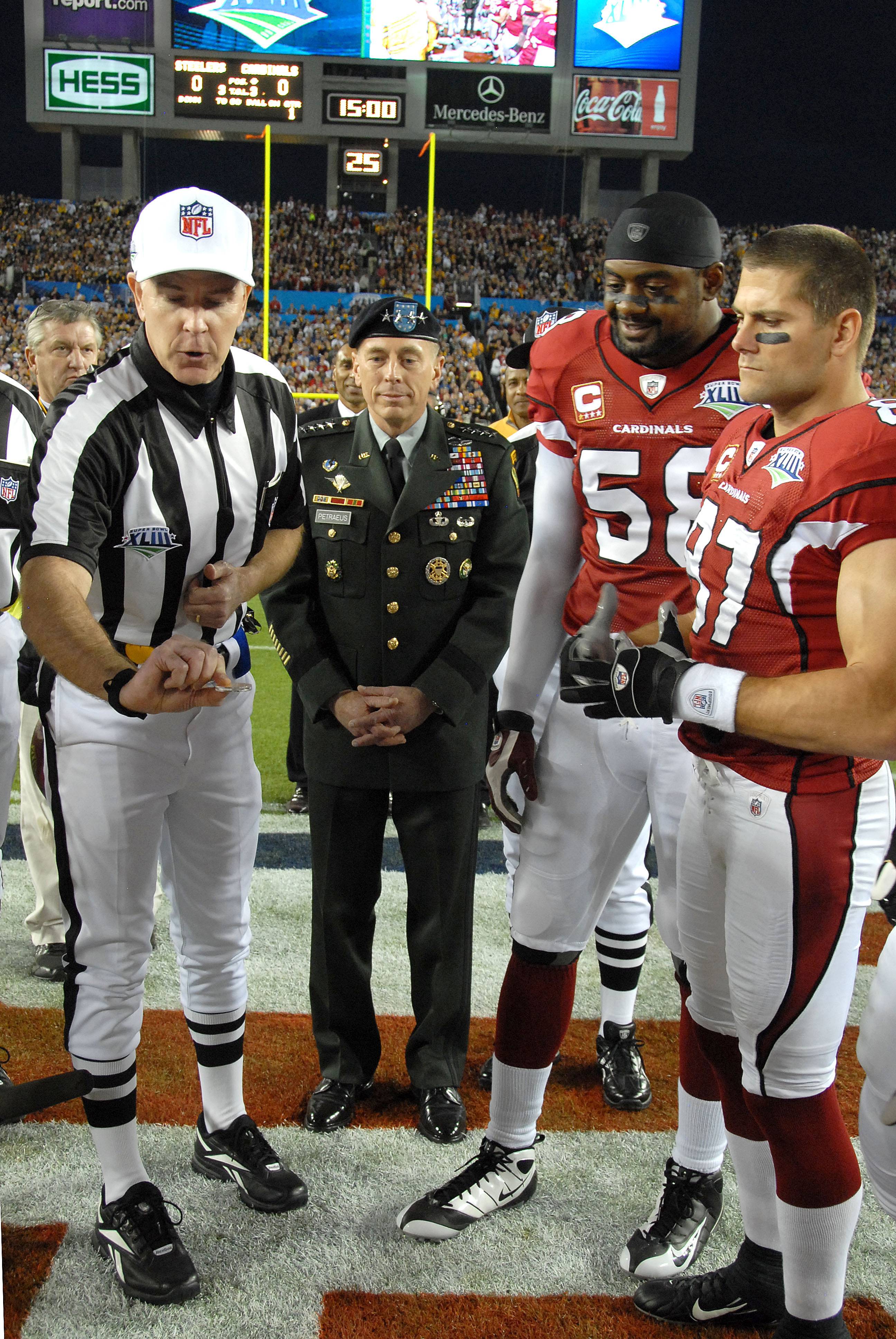 U.S. Army Gen. David H. Petraeus, commander, U.S. Central Command, gets ready to toss the coin at Super Bowl XLIII, Feb 1, 2009, at Raymond James Stadium in Tampa, Fla.